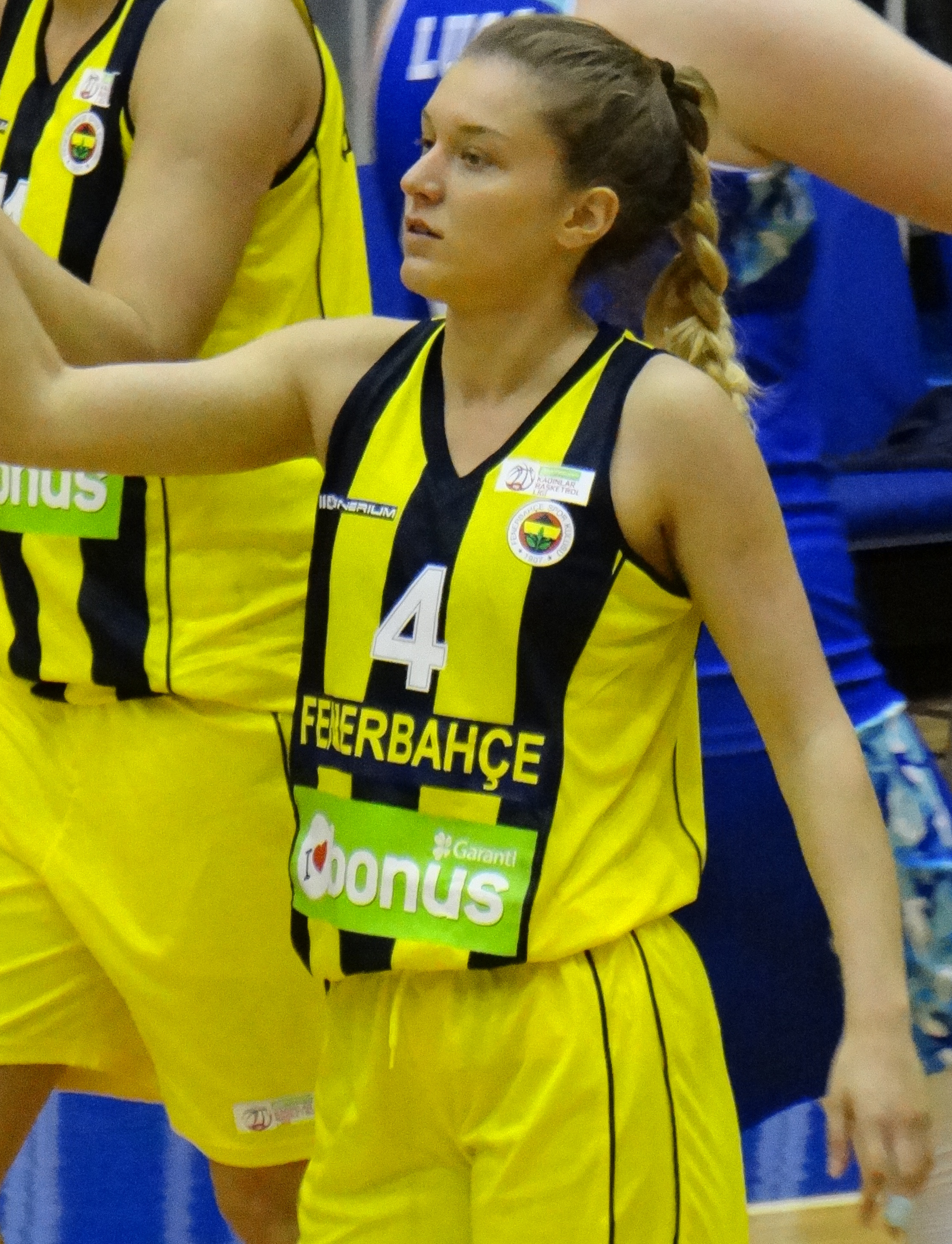 Melisa Korkmaz Fenerbahçe Women's Basketball vs Orman Gençlik TWBL 20171007